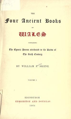 Cover of volume I of W. F. Skene's The Four Ancient Books of Wales (1868). This work contains text and translations (rather dated) of four medieval Welsh manuscript books: Llyfr Du Caerfyrddin, Llyfr Taliesin, Llyfr Aneirin a Llyfr Coch Hergest.